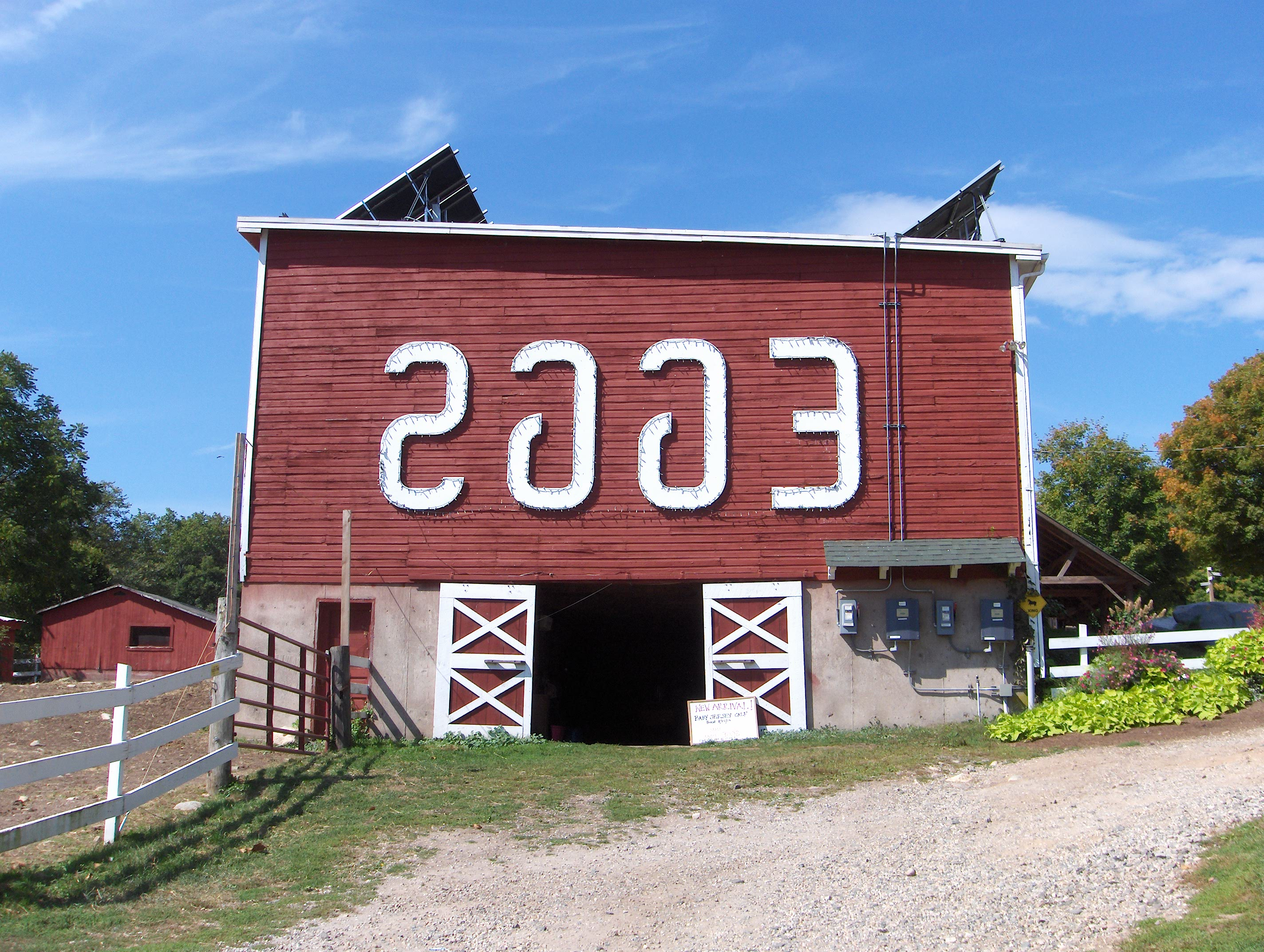 Sign at Flamig Farm, advertising eggs with backward font